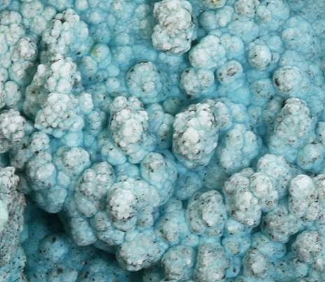 Glaucocerinite (Size: 7.7 x 5.2 x 1.8 cm) Locality: Lavrion (Laurion; Laurium), Lavrion District Mines, Lavrion (Laurion; Laurium) District, Attikí (Attica; Attika) Prefecture, Greece (Locality at ) Glaucocerinite is a fairly rare zinc copper aluminum sulfate that is only found in a handful of worldwide localities. The mineral is known for it's amazingly beautiful blue hues, which makes sense since it's name is derived from the word Glaucous (the Latin glaucus means "bluish-grey or green", and the Greek glaukos is used to describe the pale grey or bluish-green appearance of the surfaces of some plants). Laurion is the most well-known locality for this mineral, along with being the type locality. This piece is an excellent Glaucocerinite featuring dozens of small greenish-blue botryoids on matrix.